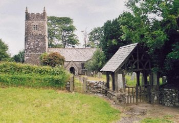 West Putford Church. Another Devon location where my BLIGHT ancestors came from.